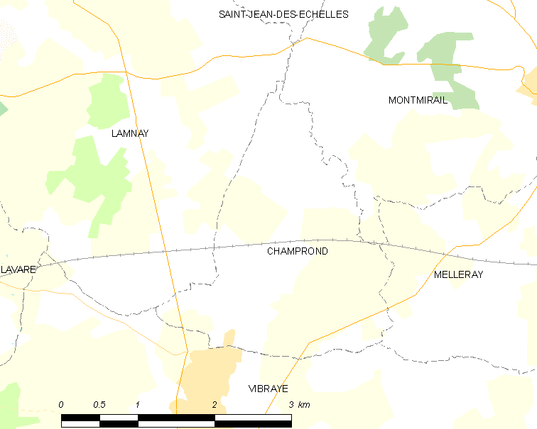 Map of French municipality